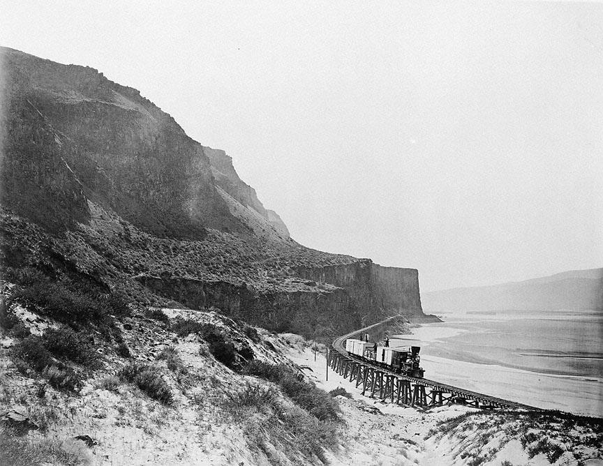 Portage railroad of the Oregon Steam Navigation Company which ran from The Dalles to Celilo on the south bank of the Columbia River. The photograph was taken from the south side of the river, and the camera is facing towards the west. The train was certainly not in motion at the time but had been stopped deliberately for the photograph. Objects in motion could not be photographed in 1867. Also, there are several men standing on the roofs of the train cars. This could not have been done had the train been in motion. This photograph is from Oregon Historical Society negative OrHi 21585